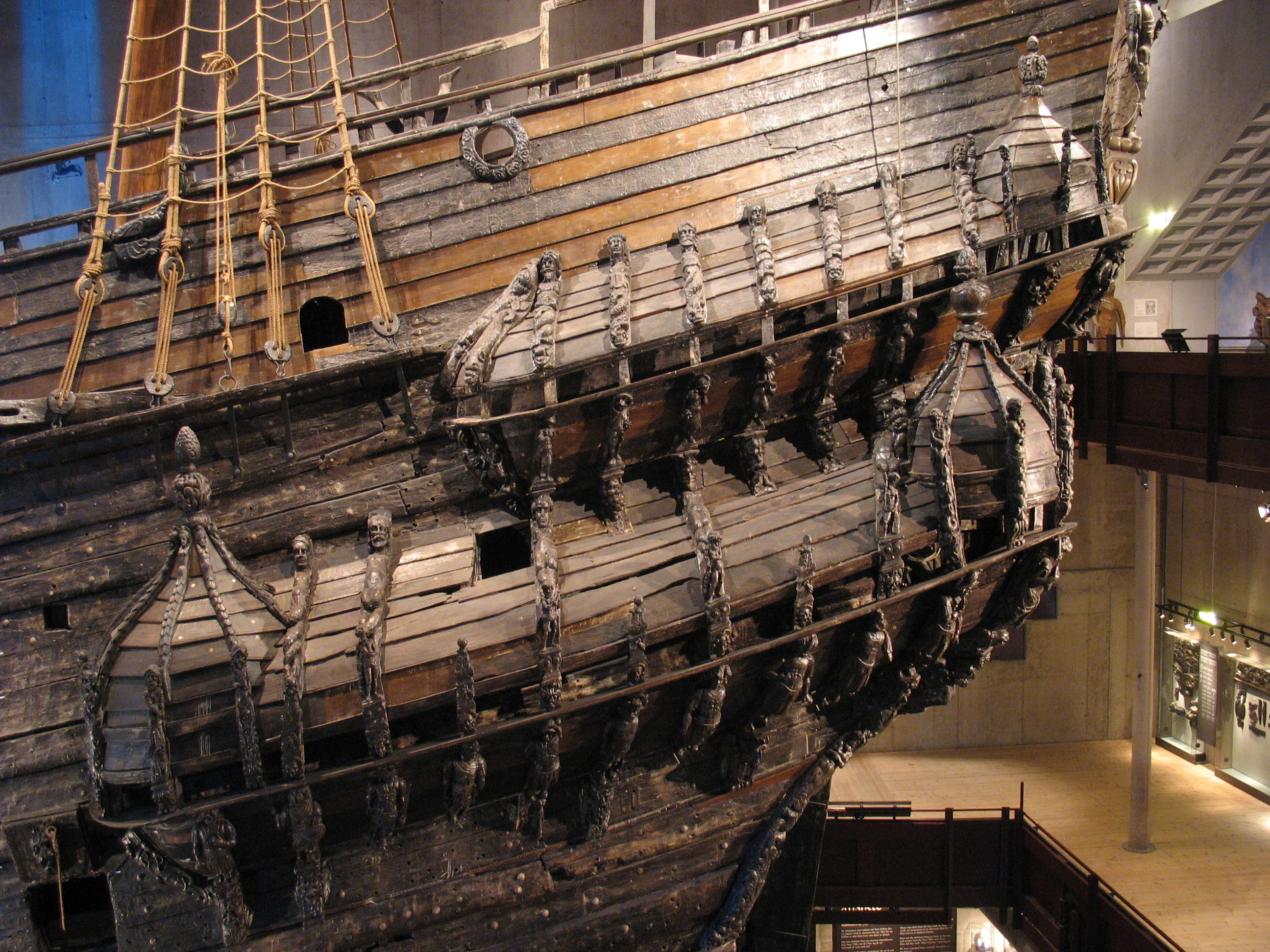 The port side quarter galleries of the 17th century warship Vasa.